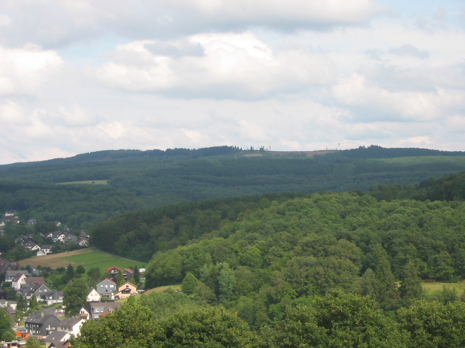 Kalteiche seen from the "Dell" in Wilden